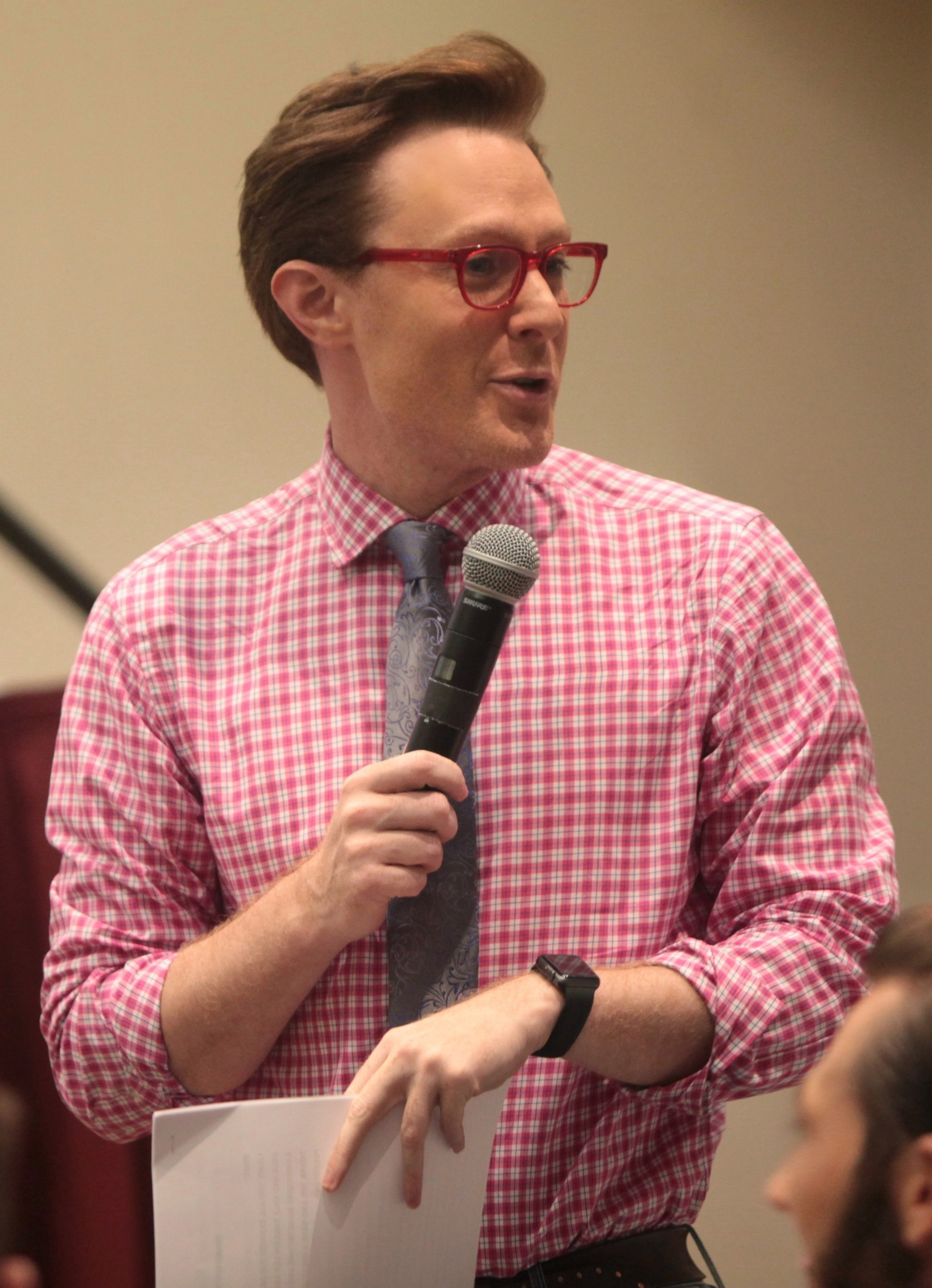 Clay Aiken speaking at the 2016 Politicon at the Pasadena Convention Center in Pasadena, California.